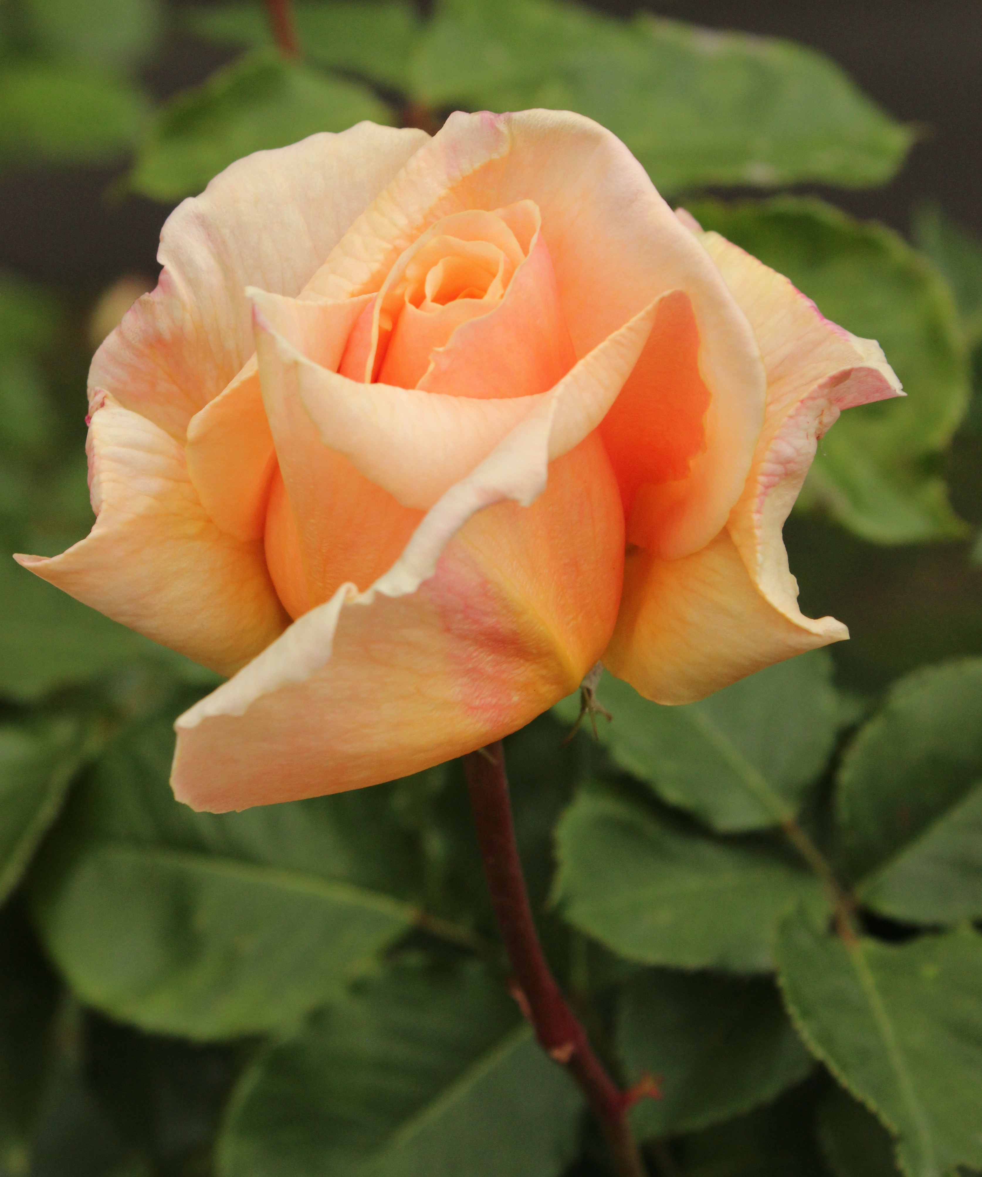 Rosa 'Philippe Noiret' in the Volksgarten in Vienna, Austria. Identified by sign.